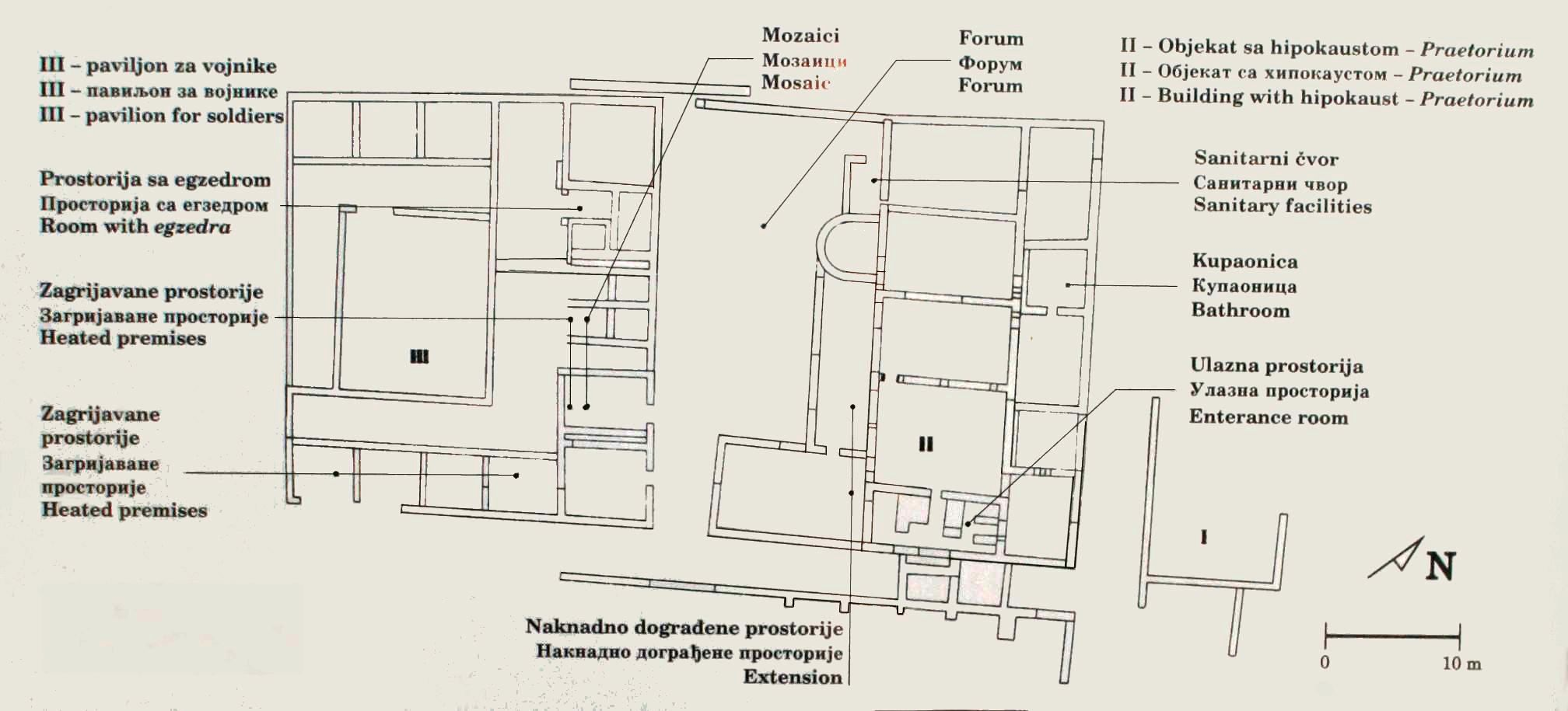 Ground plan of an ancient house and bath, Roman military camp Gračine